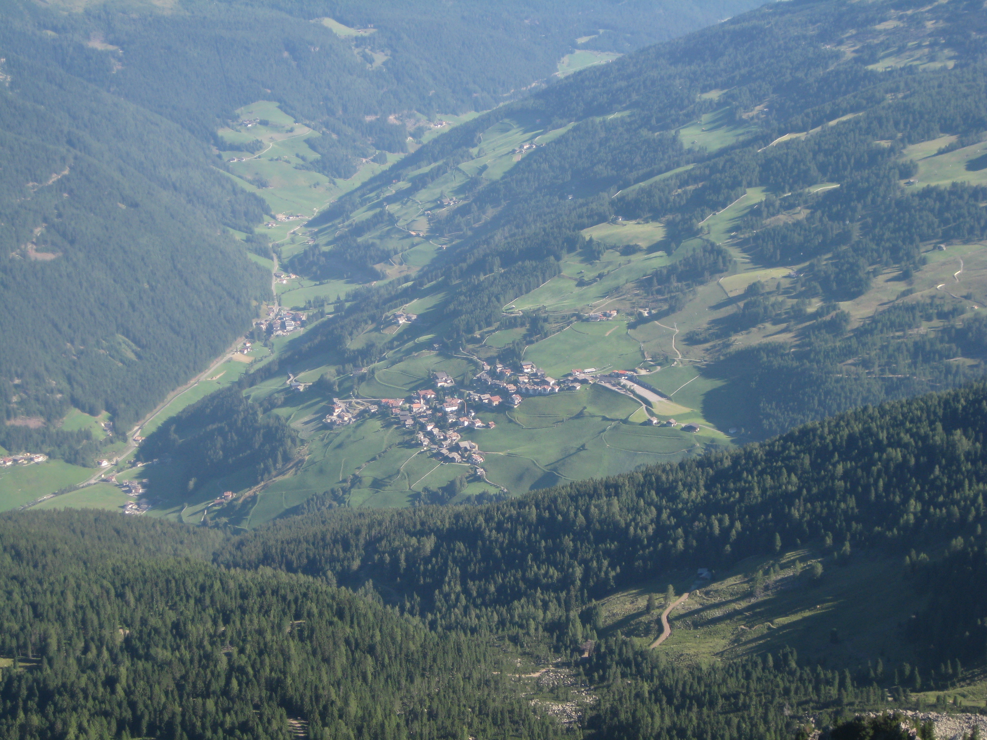 Reinswald in South Tyrol as seen from the Villanderer Berg